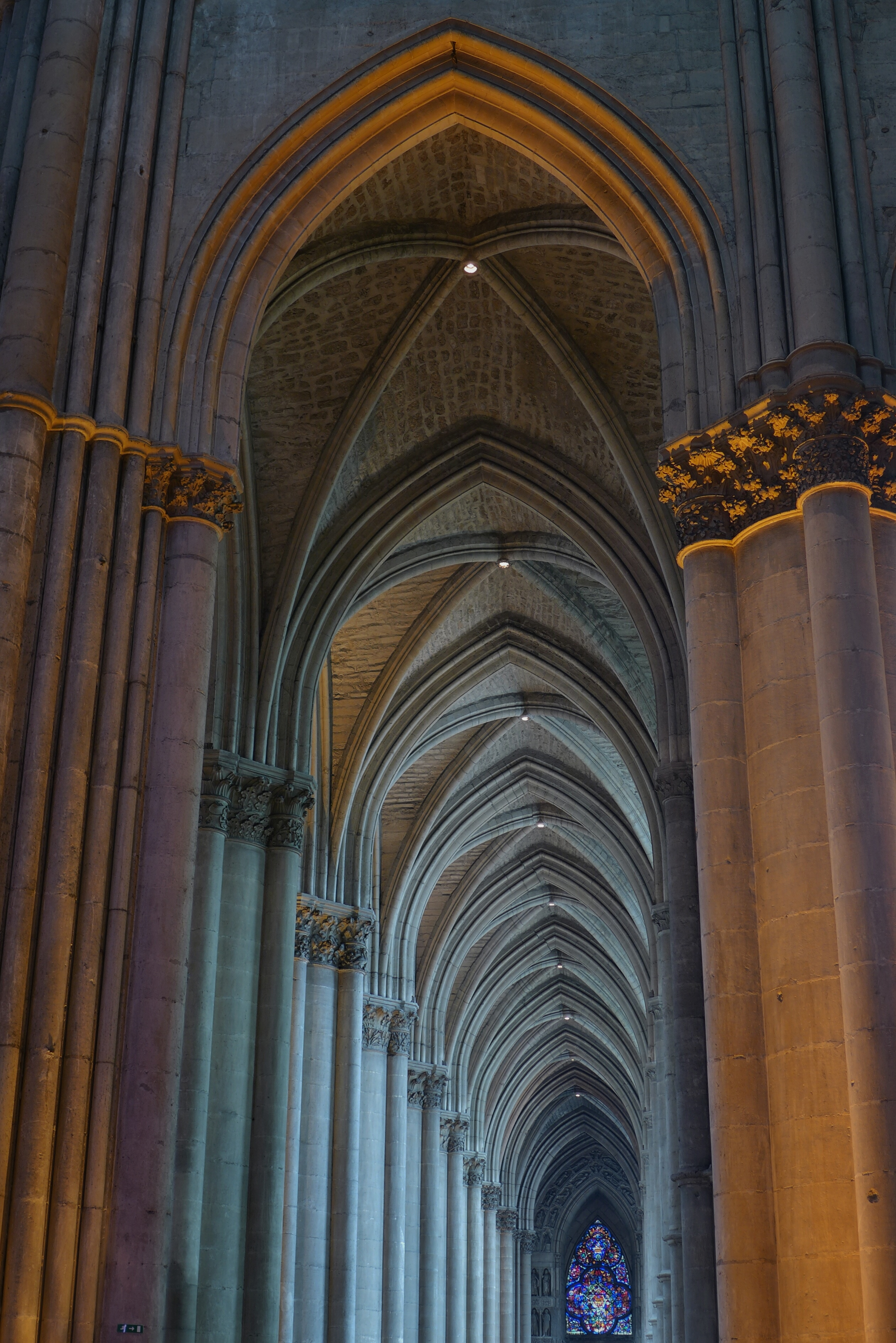 North aisle of Reims Cathedral, seen in the East-to-West direction from the space in front of the organ.